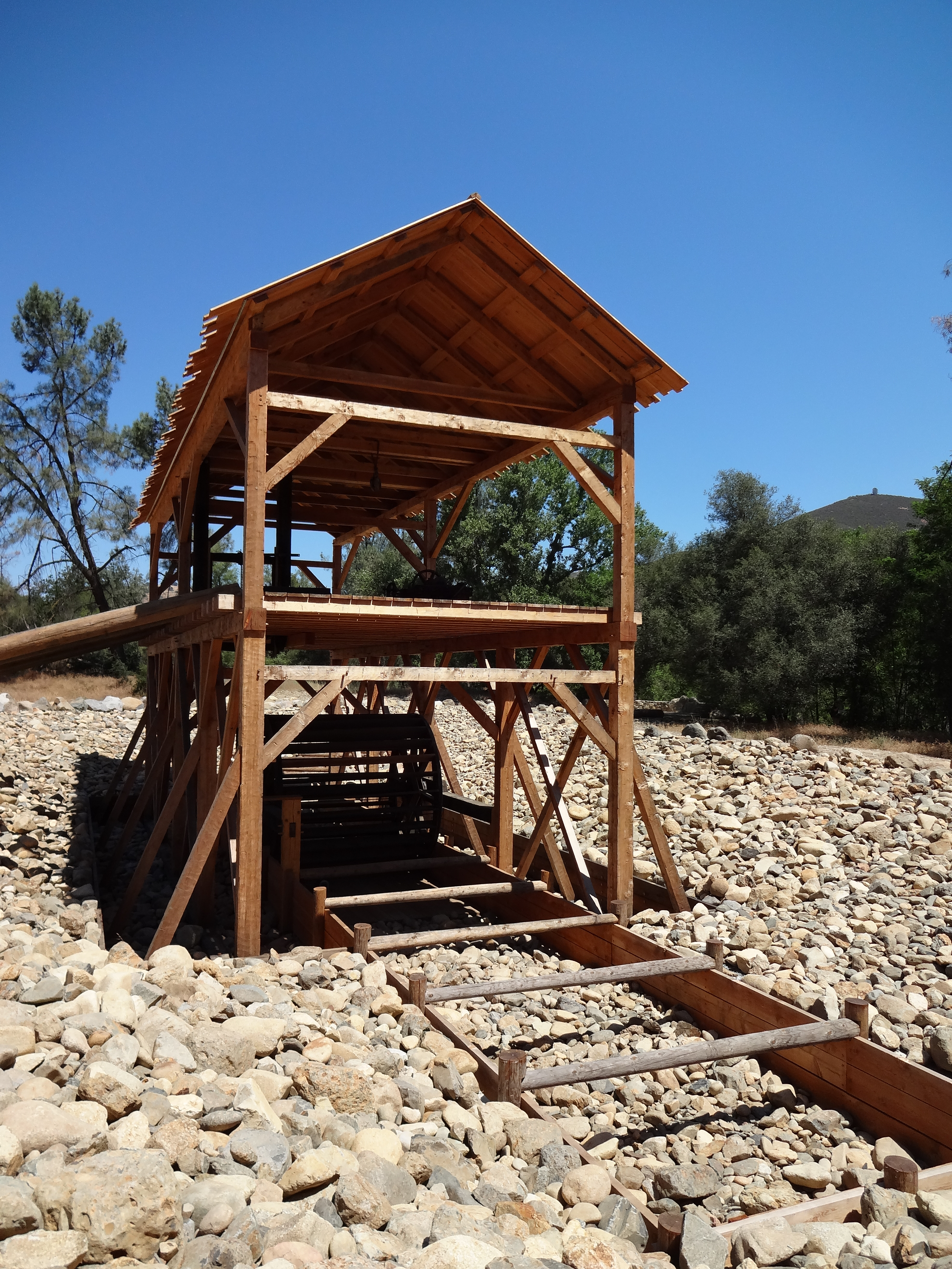 Reconstruction of Sutter's Mill, Coloma, California